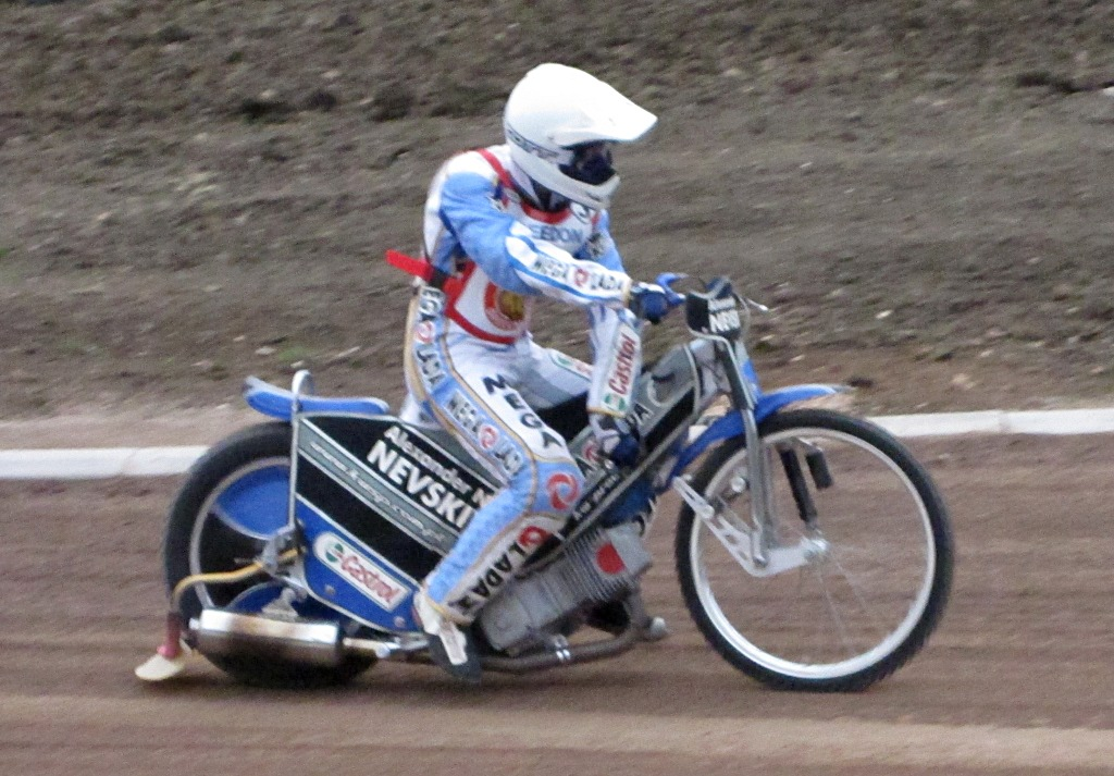 Ilya Bondarenko, Beaumont Park, Leicester